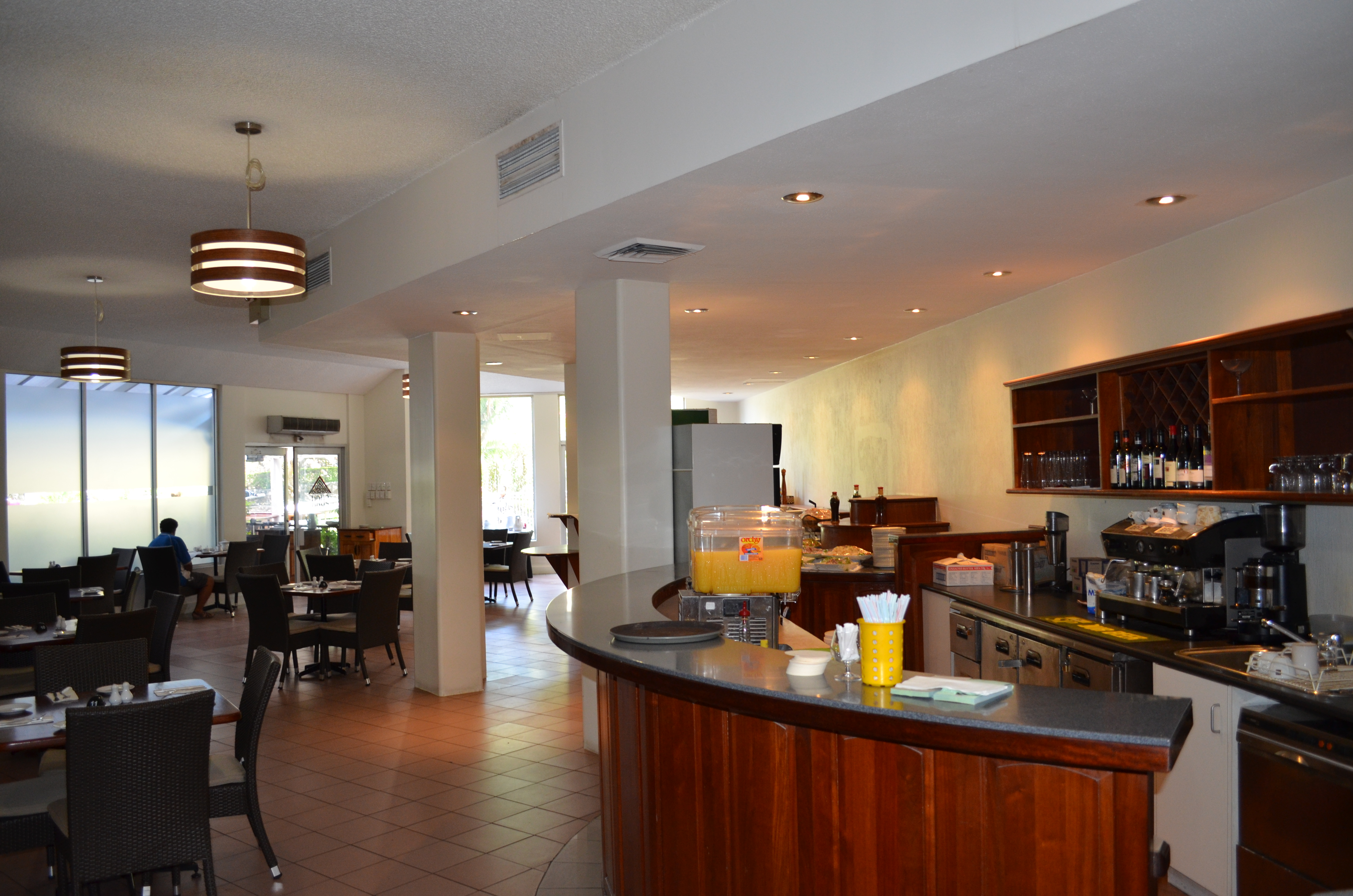 Holiday Inn in Port Moresby, Papua New Guinea. Read our review on and learn more about eGuide by liking us at